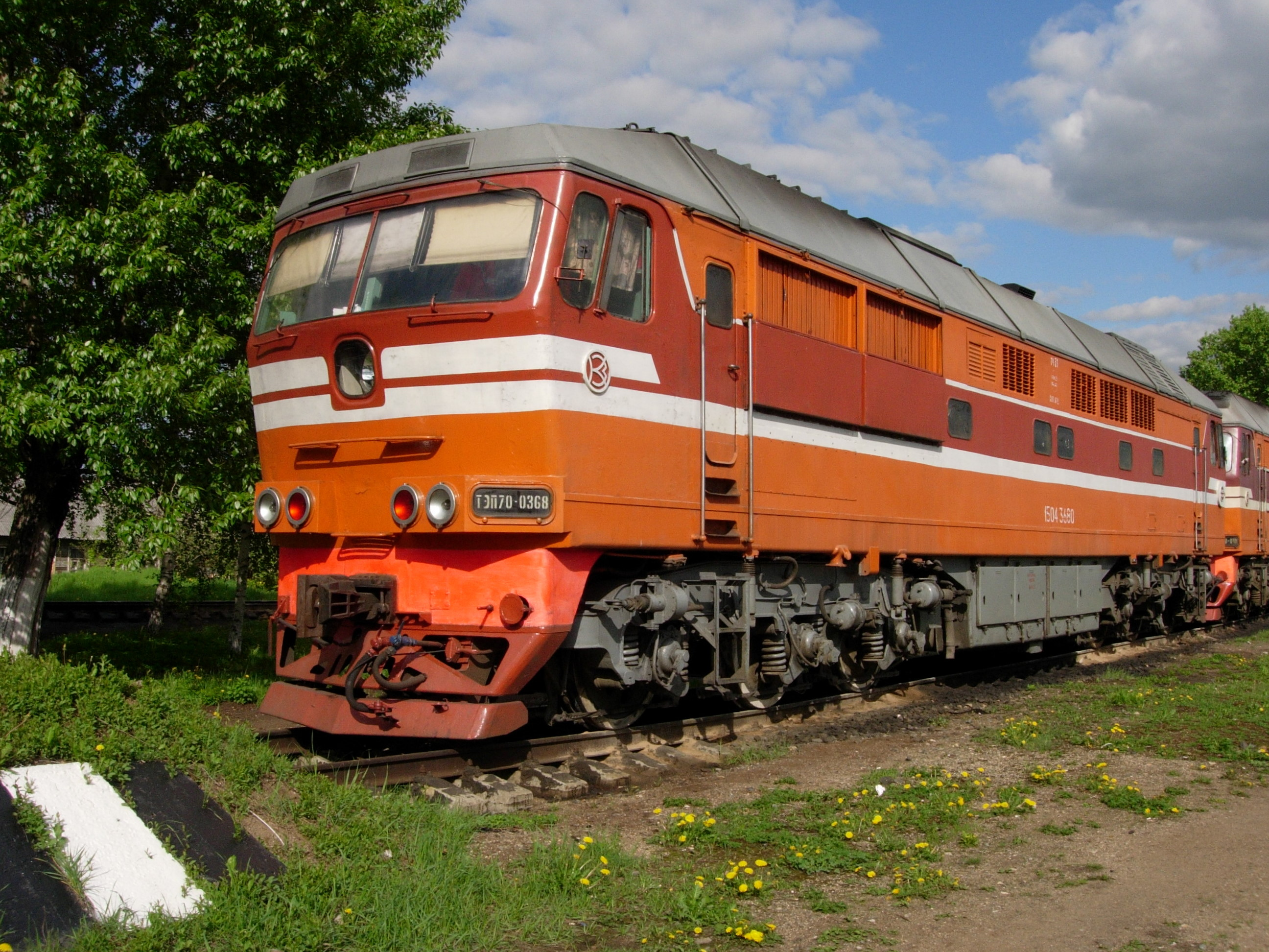 Soviet/Russian locomotive for passenger trains in Volokolamsk. 4000hp